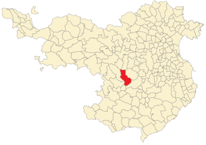 Sant Martí de Llémena